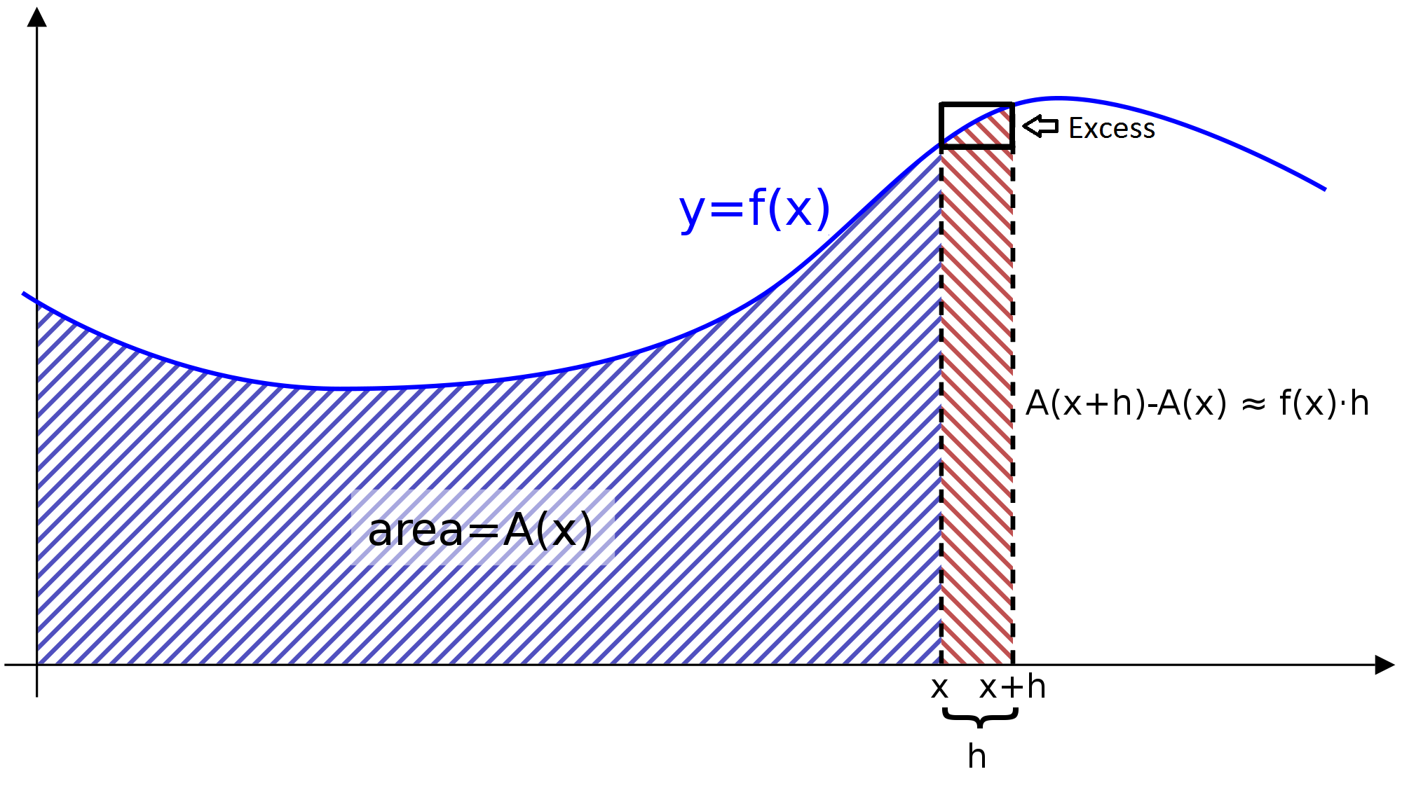 Fundamental theorem of calculus - function graph